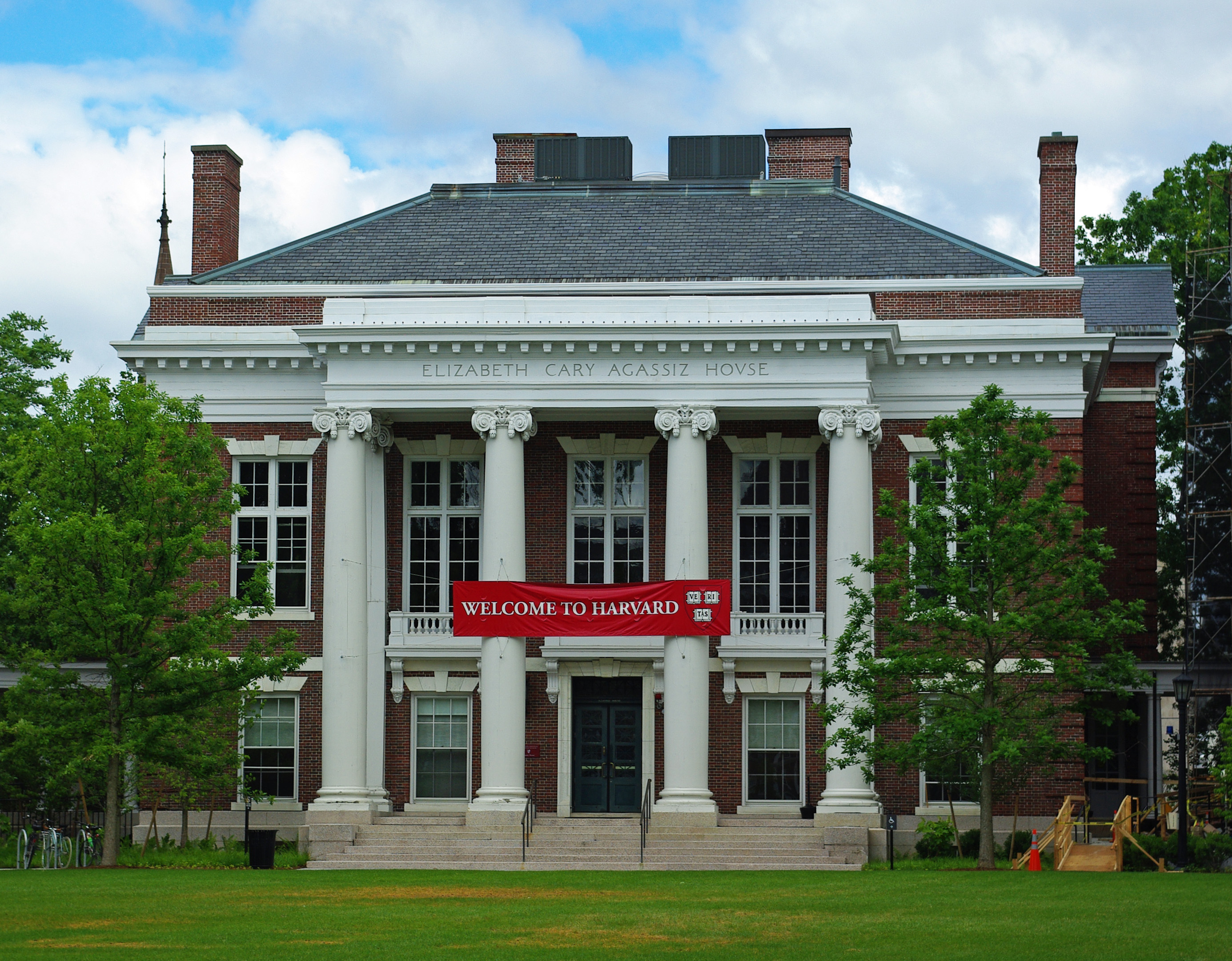 Elizabeth Cary Agassiz House, Radcliffe Yard, Harvard University